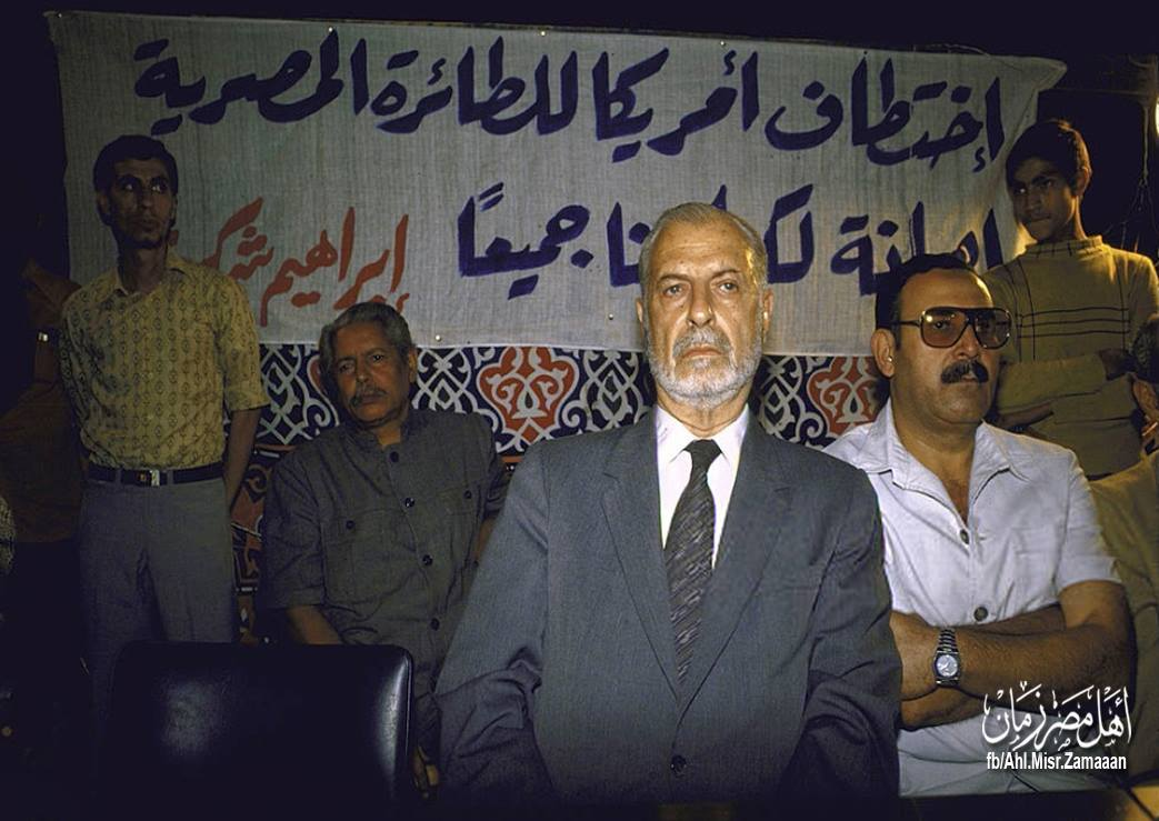 Ibrahim Shoukry and the Egyptian Labour party demonstration 1985 After American forces trial of kidnapping Egyptair flight in Rome. It was carrying Palestinians that have attempted the resistance operation on an American ship. Date 1985 The photo is from the comment of the post at the link